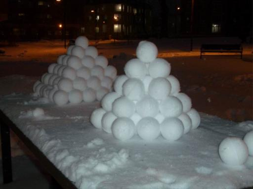 Snow pyramids